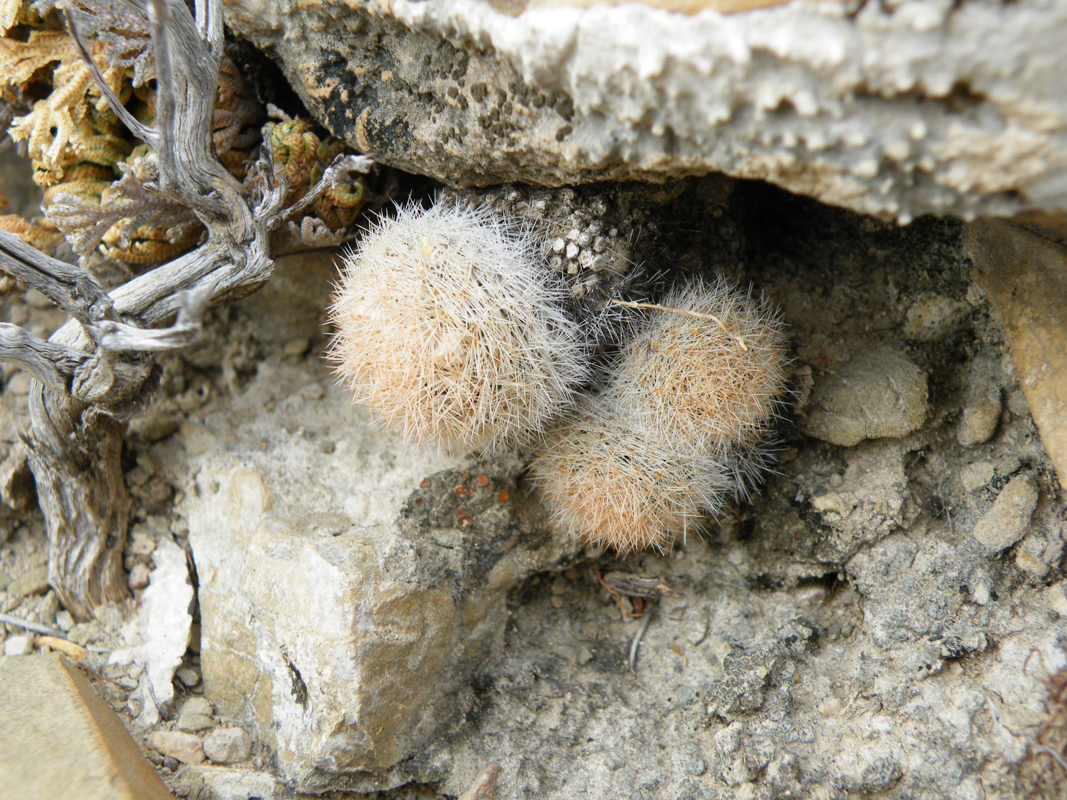 Position 20, 17 kms from Parras